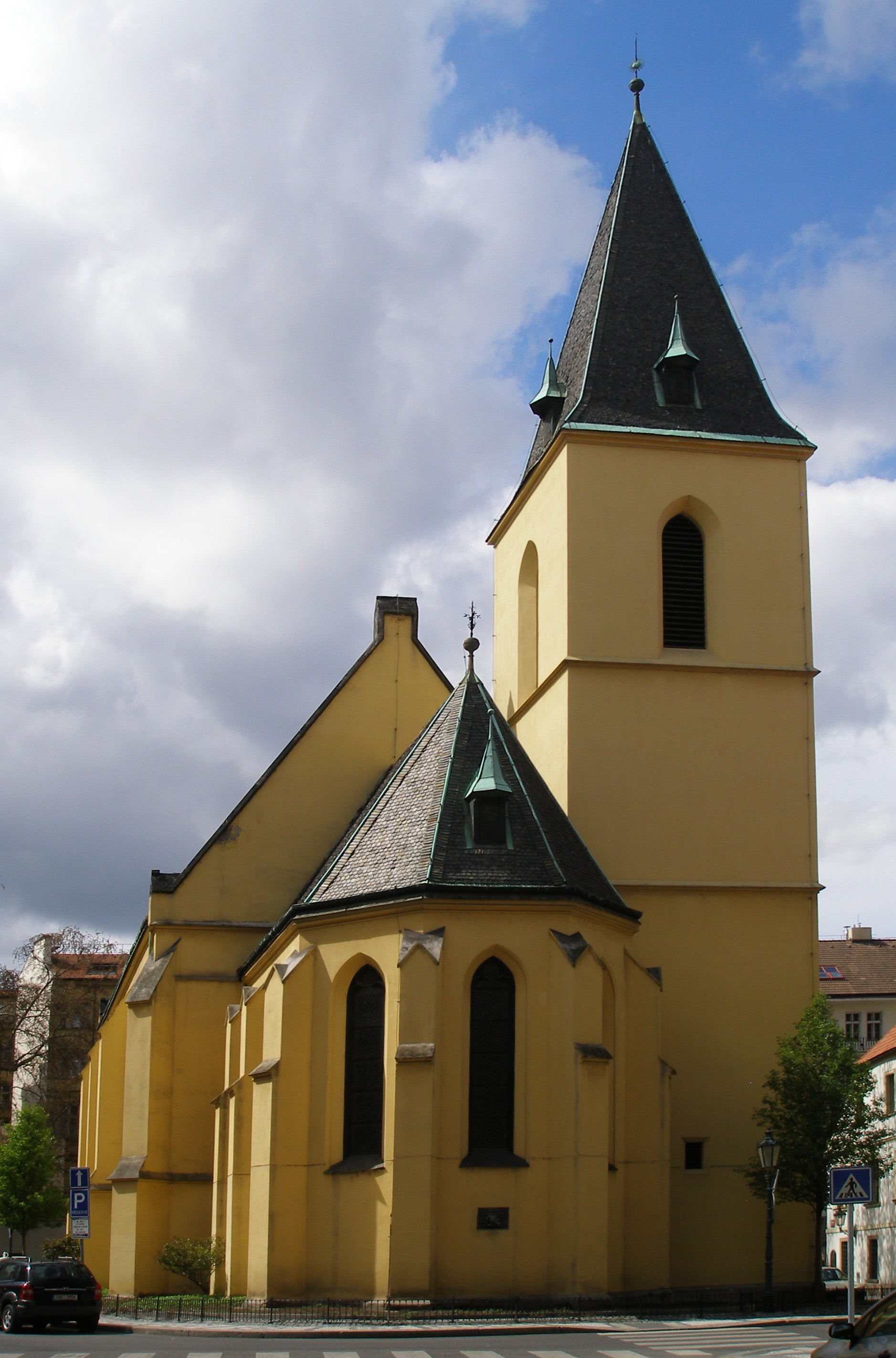 Church of Saint Kliment in Prague, Klimentská street.